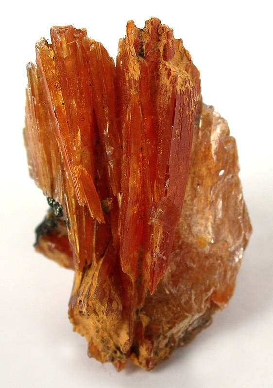 Leiteite, Ludlockite Locality: Tsumeb Mine (Tsumcorp Mine), Tsumeb, Otjikoto (Oshikoto) Region, Namibia (Locality at ) Size: thumbnail, 2.8 x 1.8 x 1.2 cm Ludlockite in Leiteite I have simply never seen another piece like this. It is clearly Leiteite in form, and yet it has a bright umber-red color to it! The cause is due to minute dispersed inclusions of Ludlockite. The piece is unique and stunning, as you can see. (TYPE LOCALITY for BOTH SPECIES)